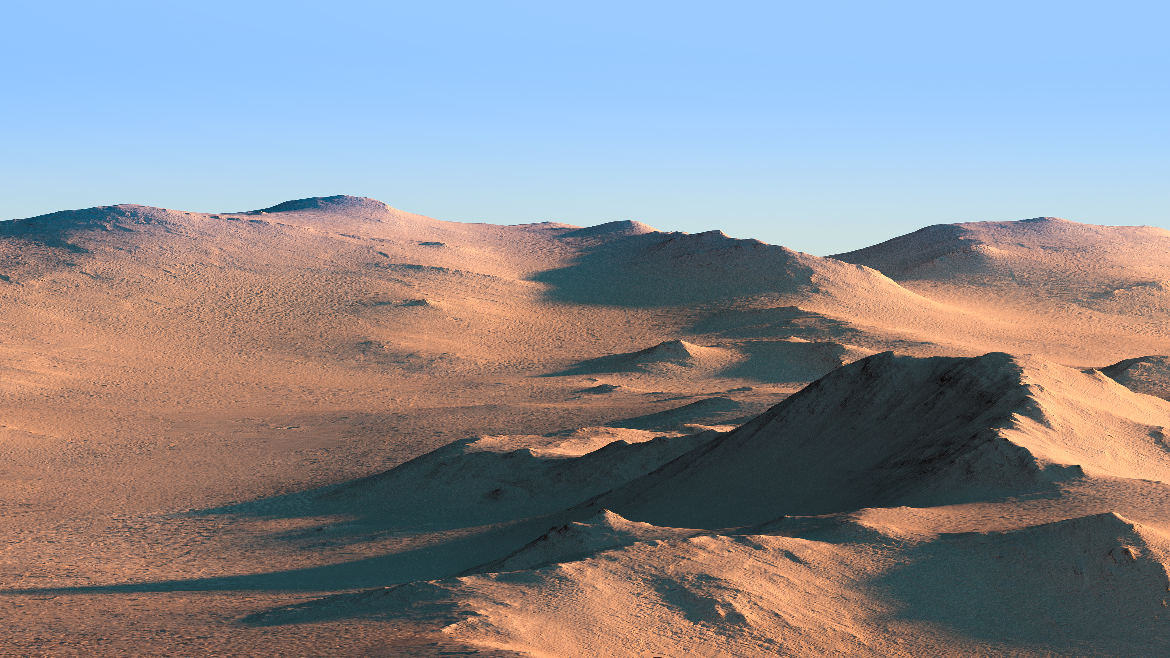 Rendered using Autodesk Maya and Adobe Lightroom. HiRISE data processed using gdal. Data: NASA/JPL/University of Arizona/USGS